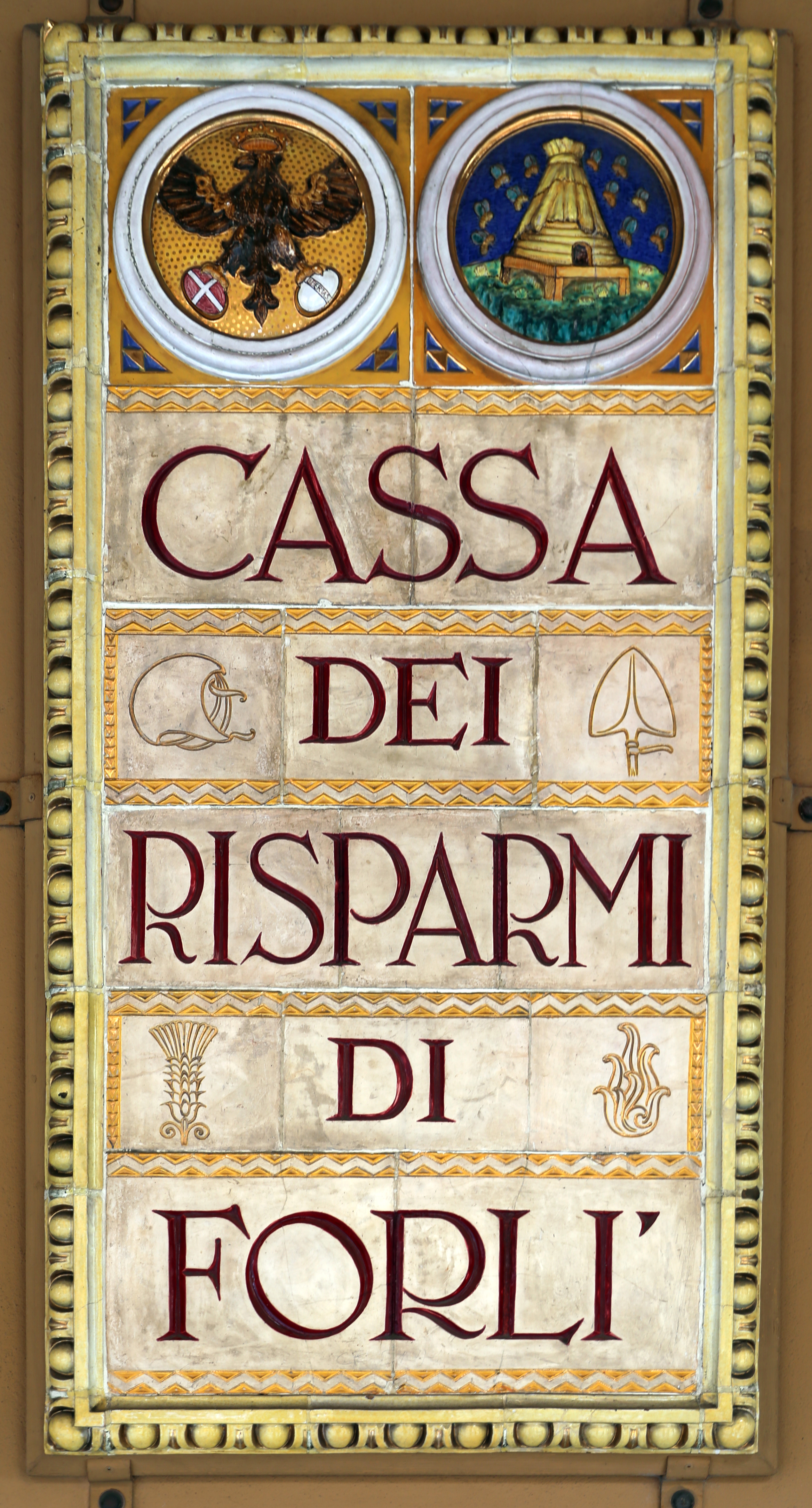 Cassa di Risparmio di Forlì (Forlì)